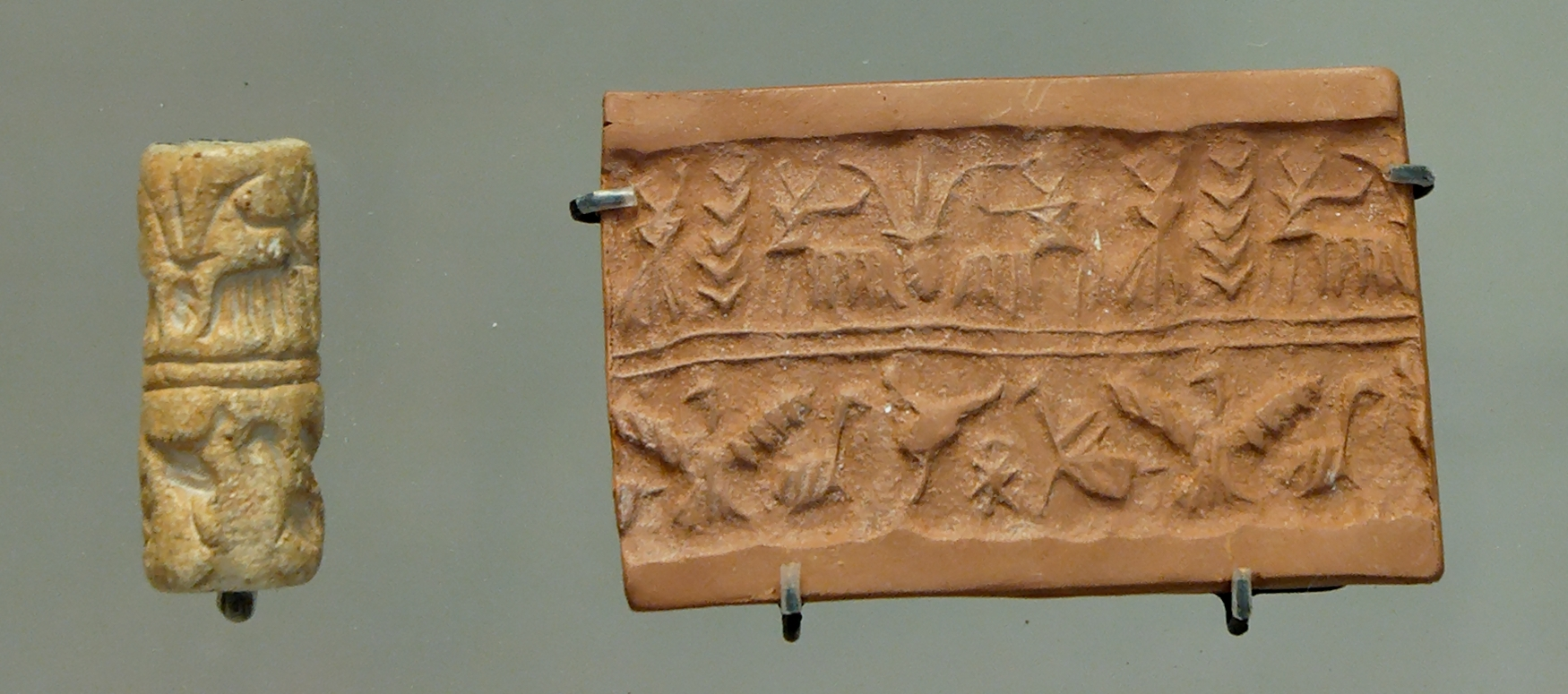 Cylinder seal and impression on clay: banquet scenes. Shell-(?), Early Dynastic III (ca. 2500–2400 BCE), found in Mari.